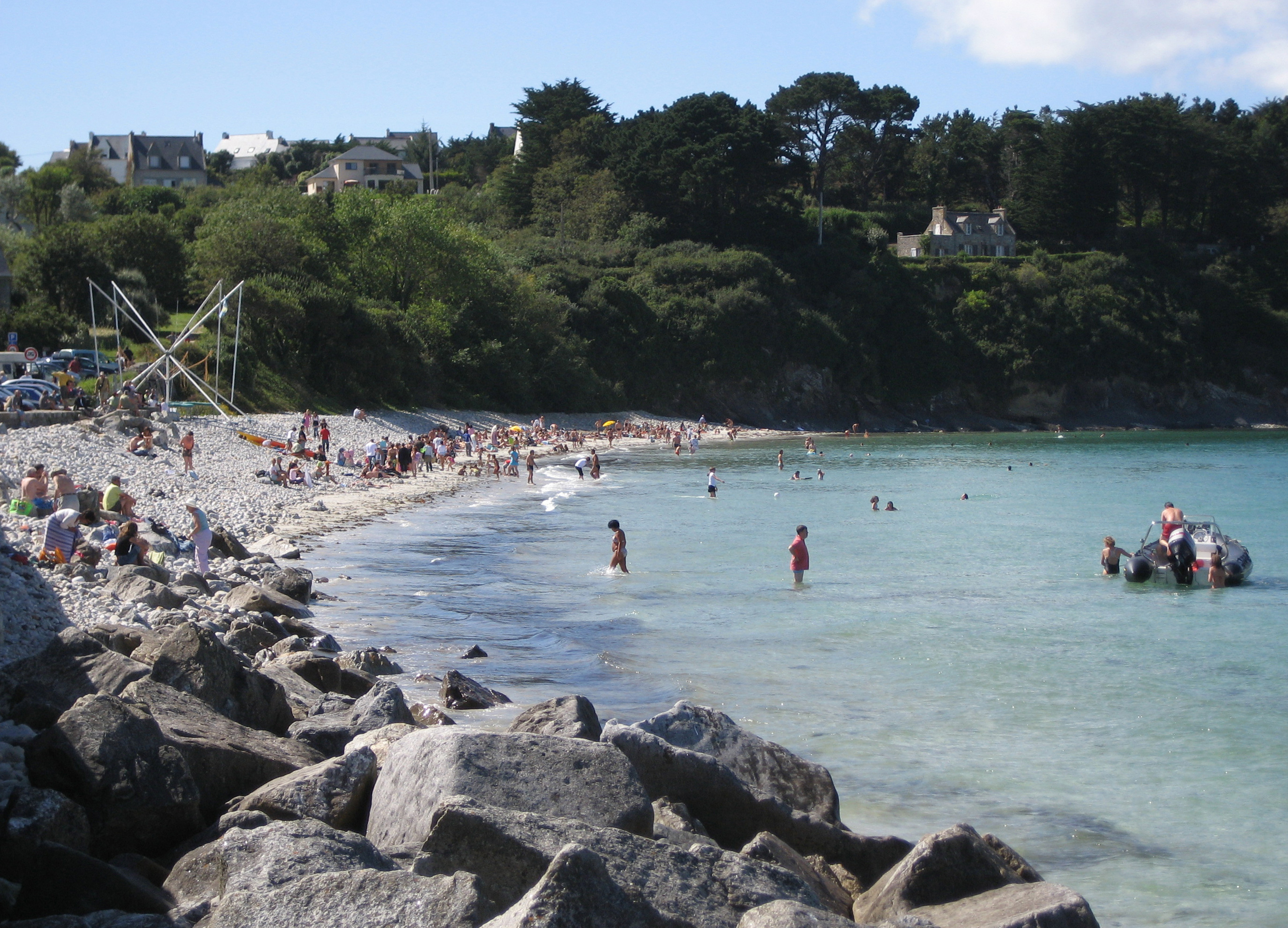 Plage du Corréjou (Camaret sur Mer)